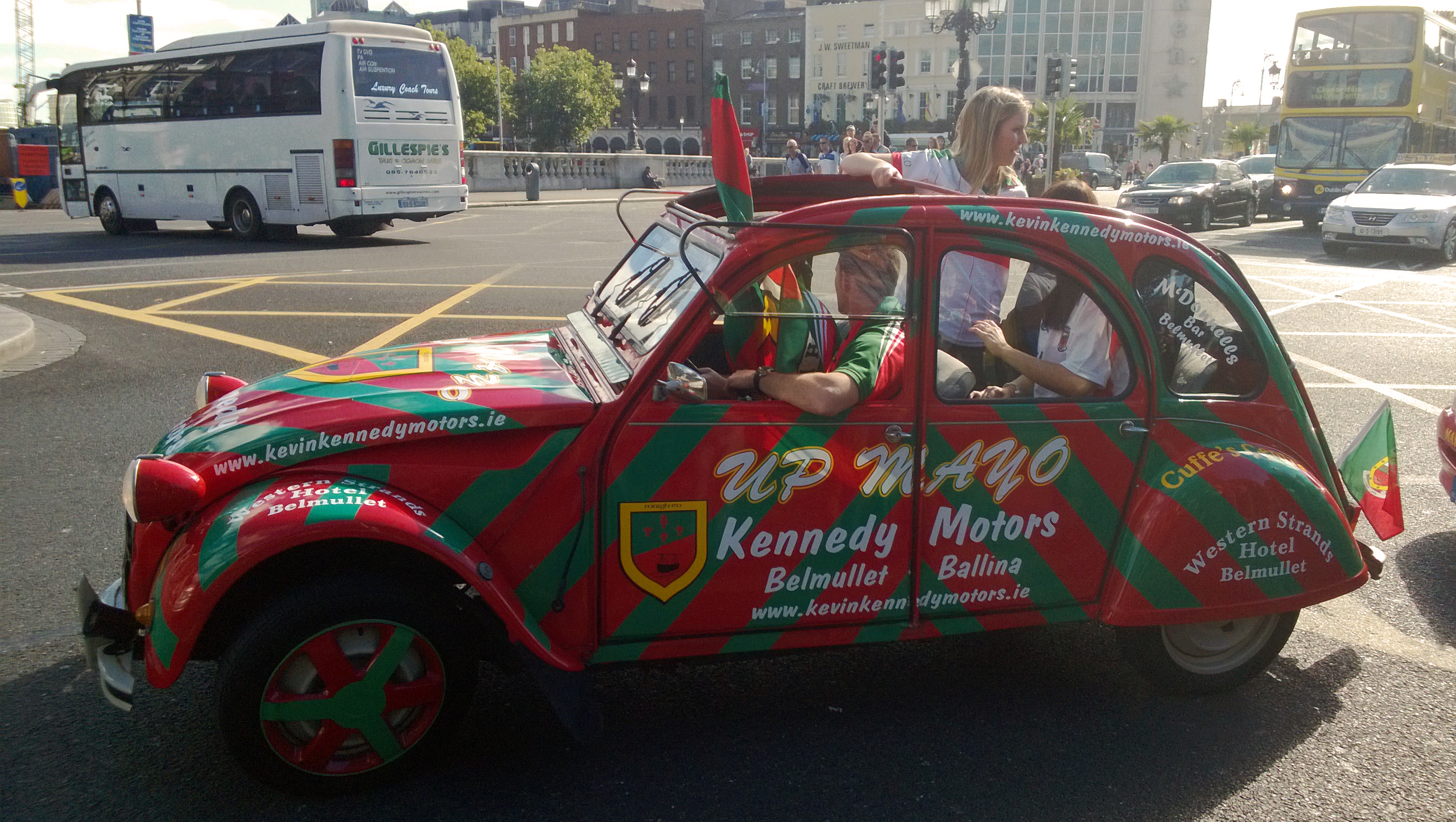 1987 Citroën 2CV sporting Co. Mayo colours.